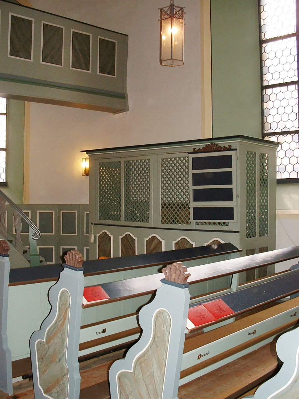 Evangelische Kirche Allenbach (Hunsrück), Zensorengestühl